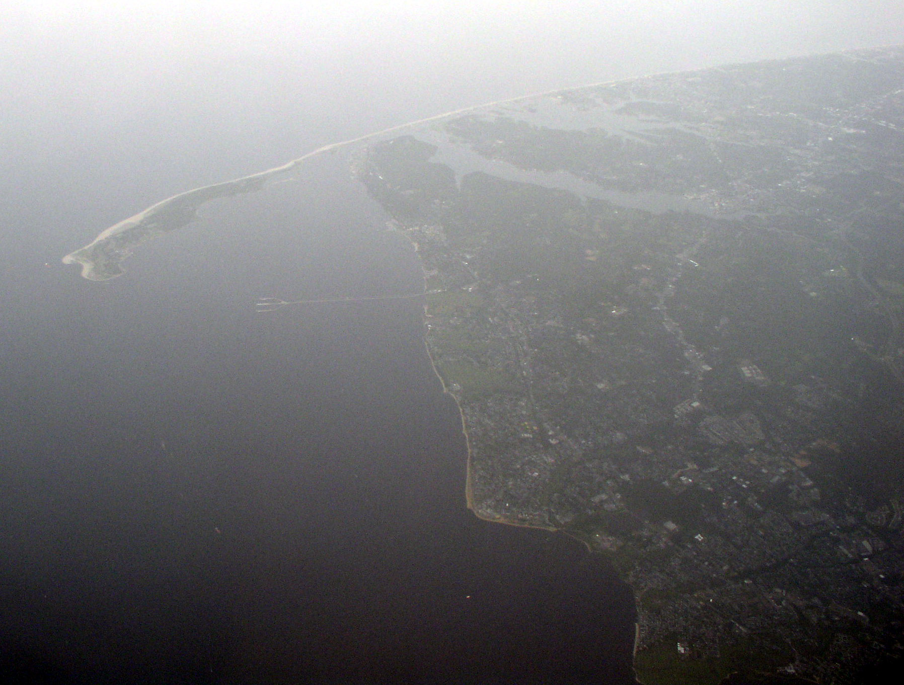 Oblique air photo of Sandy Hook Bay, NJ, taken 12 July 2007, facing east. Taken/uploaded by Jim Stuby 21:47, 24 September 2007 (UTC).